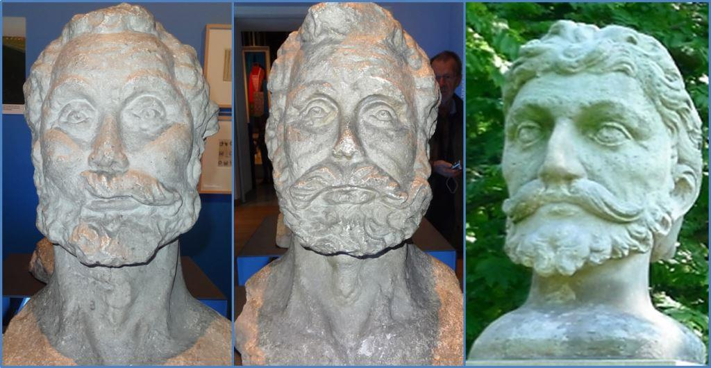 Three different faces of Janus